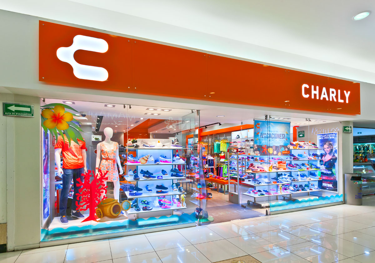 Tienda oficial de la compañía Charly en México.